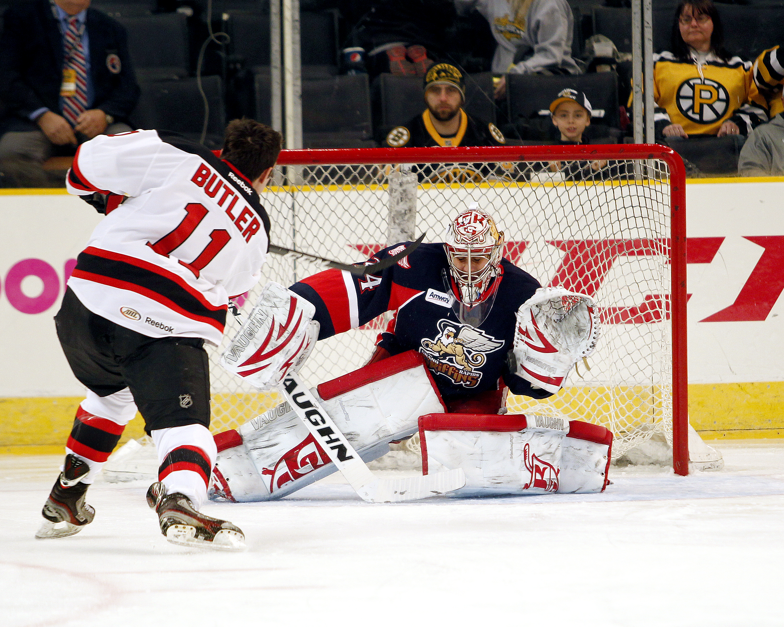 Breakaway15 American Hockey League (AHL). 2013 All-Star Skills Competition. Taken on January 27, 2013.